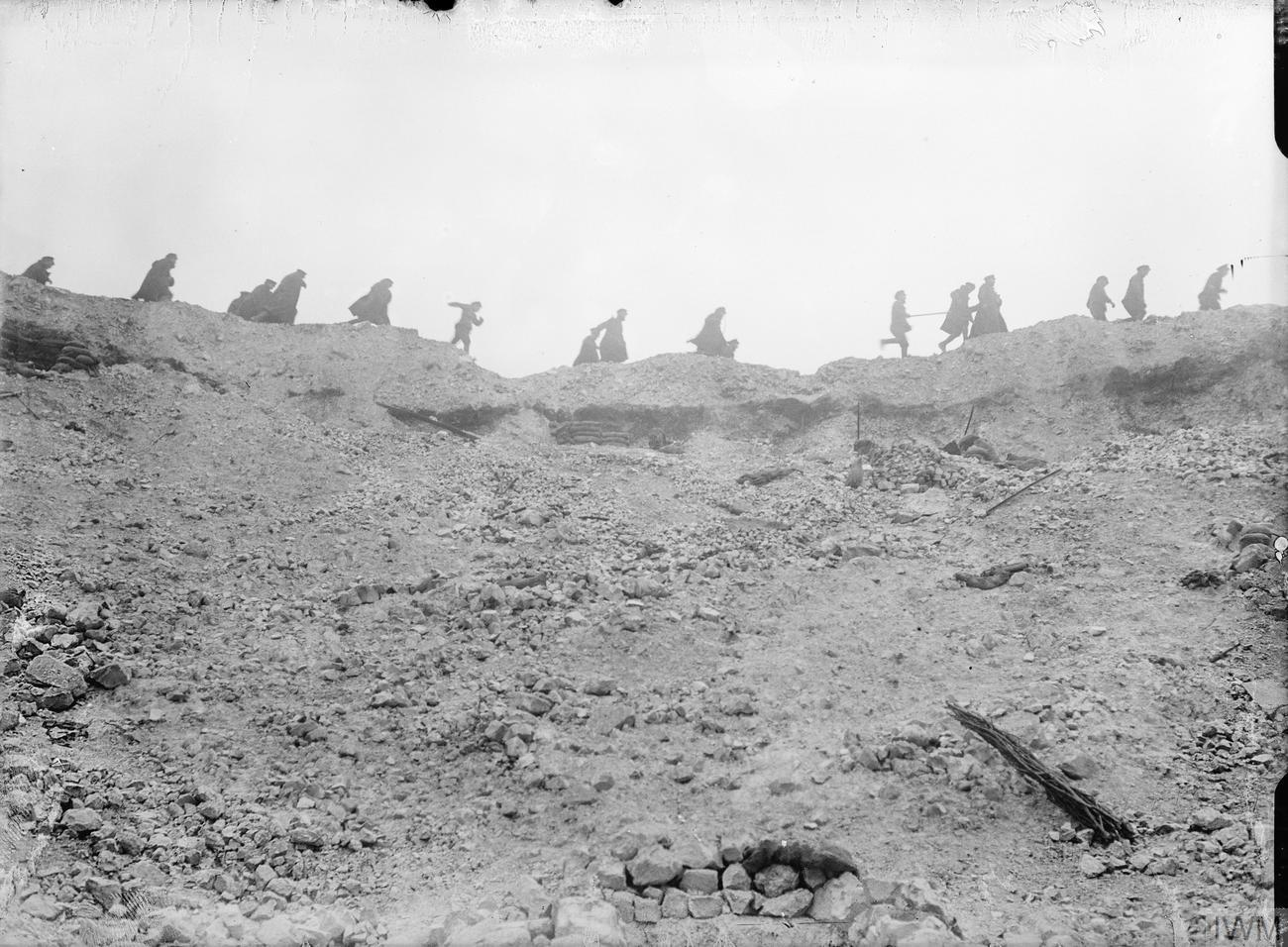 IWM caption : British troops running along the lip of the Lochnagar mine crater at La Boisselle.